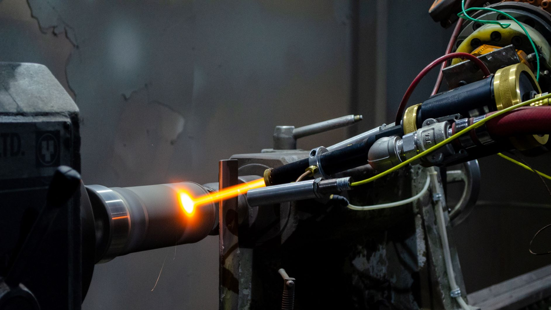 High Velocity Air Fuel Thermal Spray Application